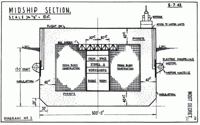 Habakukk aircraft